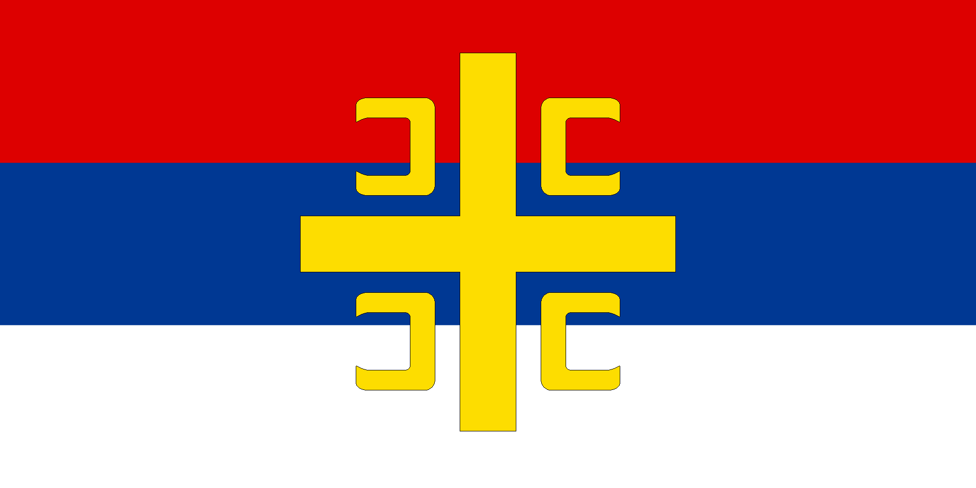 Unofficial Flag with the Serbian cross that is often used by Bosnian Serbs and the Serbian Orthodox Church in Republika Srpska